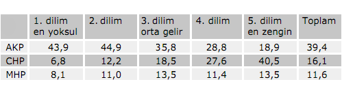 Voter base of the three political parties of Turkey by monthly household income. The table is divided into five groups of 20% to increasing wealth. "1. dilim" is the poorest 20% of Turkey and "5. dilim" is the richest 20% of Turkey.